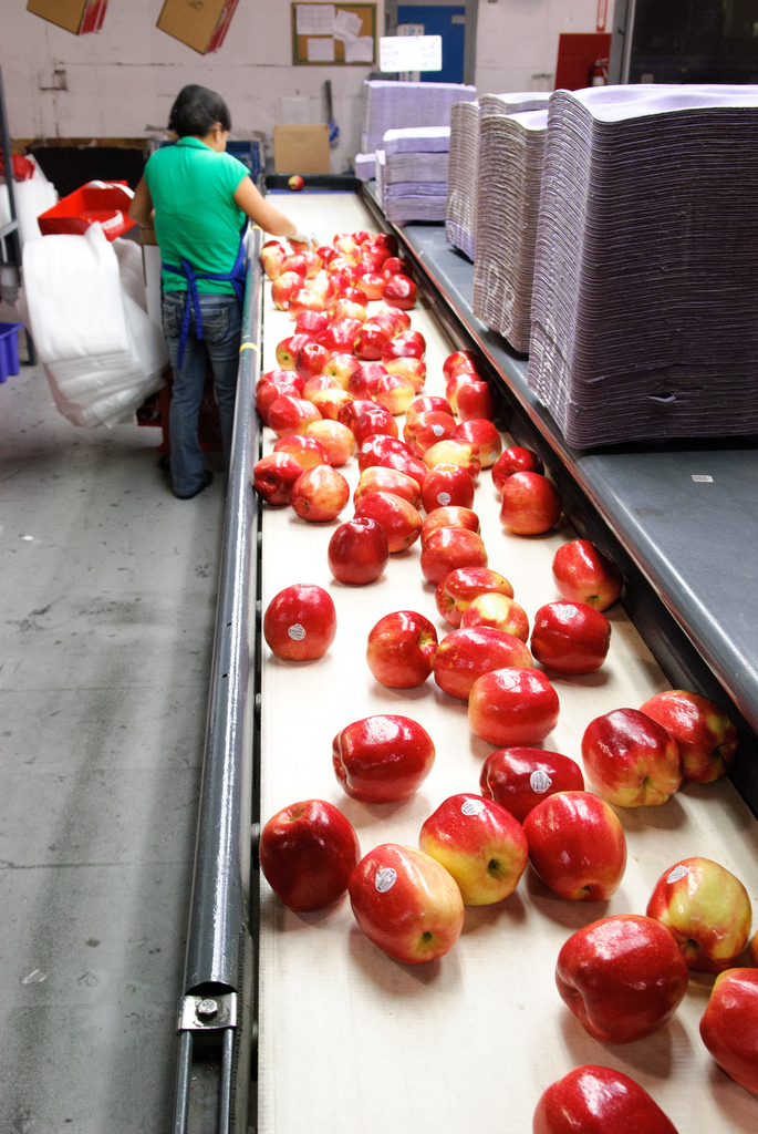 Pictures of the first packing run for SweeTango apples grown by Stemilt.